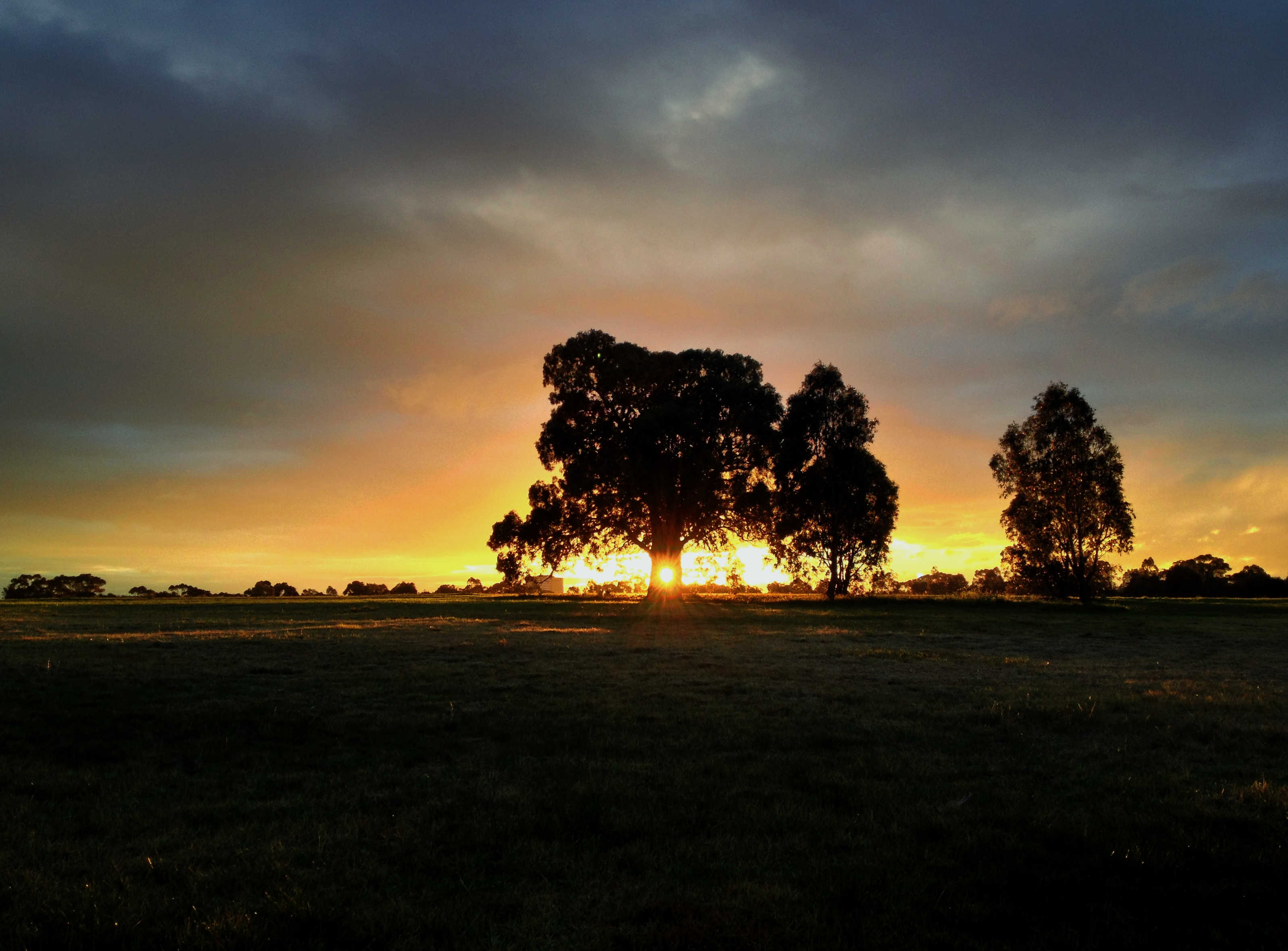 The setting sun shining between two tree trunks of the Royal Park, Melbourne. Taken with an iPhone 4S at just the right time. Adjusted levels in GIMP to make the tree silhouettes darker. Boosted colours via the FX-Foundly LAB Color Punch filter. Sharpened the flattened result with the standard Sharpen filter. Straightened the horizon.